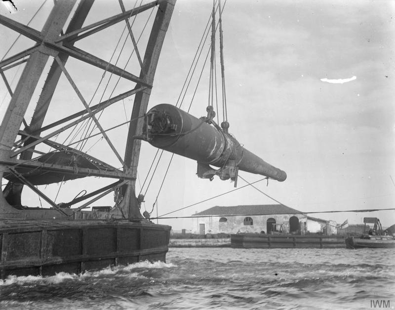 The Italian Navy in the Mediterranean, 1915-1918 A 12-inch gun recovered from a wreck being towed to the arsenal.